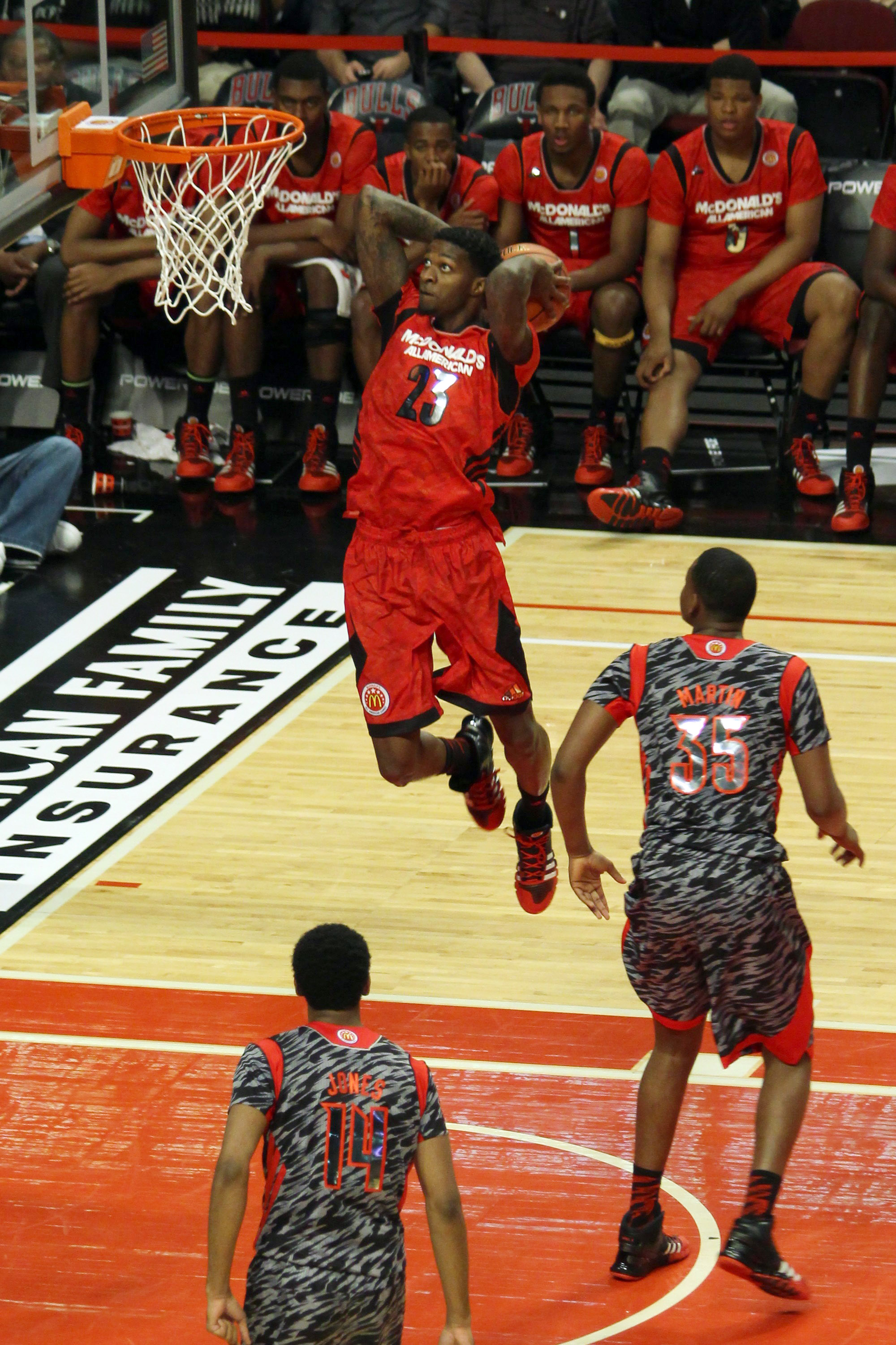 Chris Walker at the w:2013 McDonald's All-American Boys Game